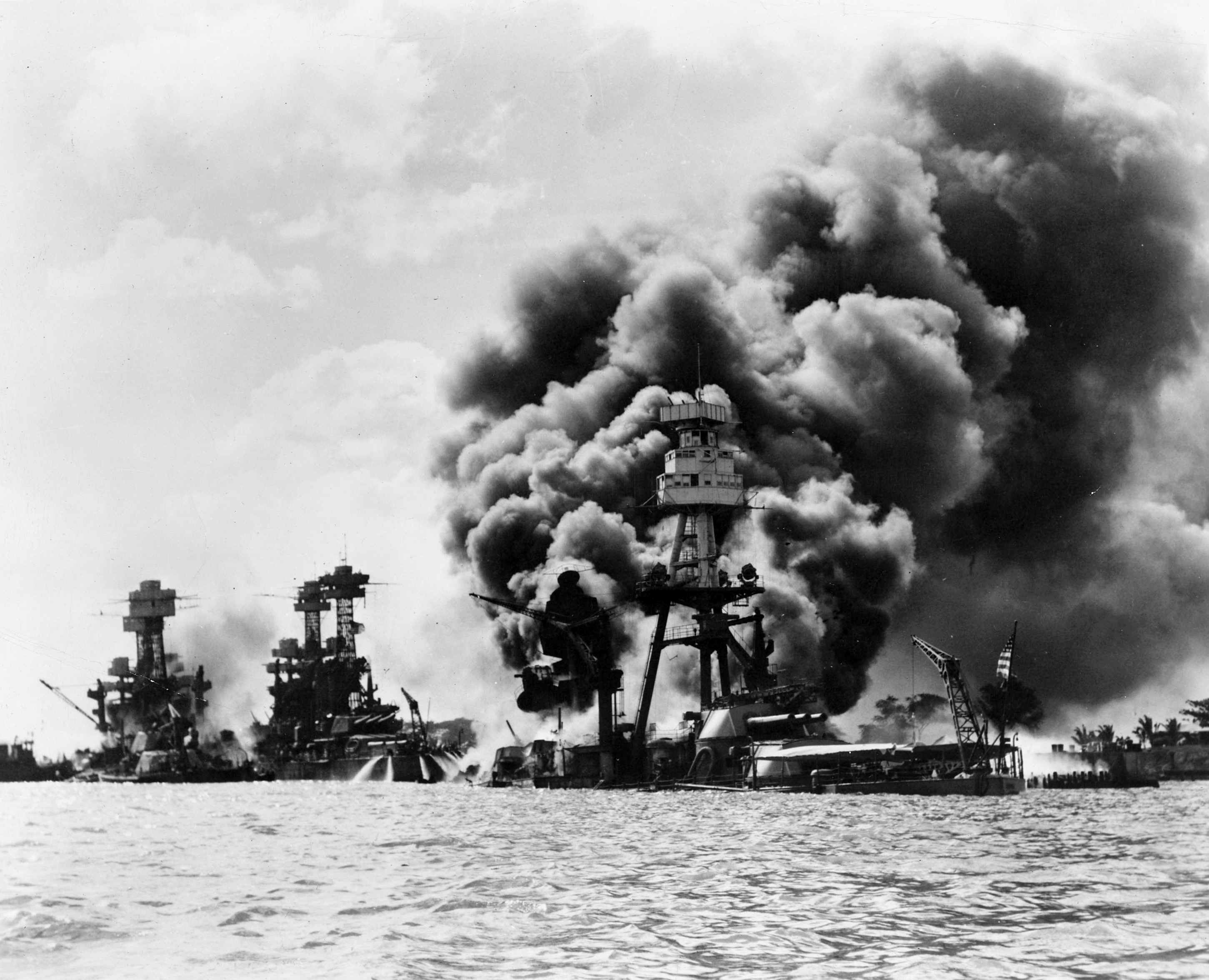 U.S. Navy battleships at Pearl Harbor on 7 December 1941 (l-r): USS West Virginia (BB-48) (sunk), USS Tennessee (BB-43) (damaged), and the USS Arizona (BB-39) (sunk).